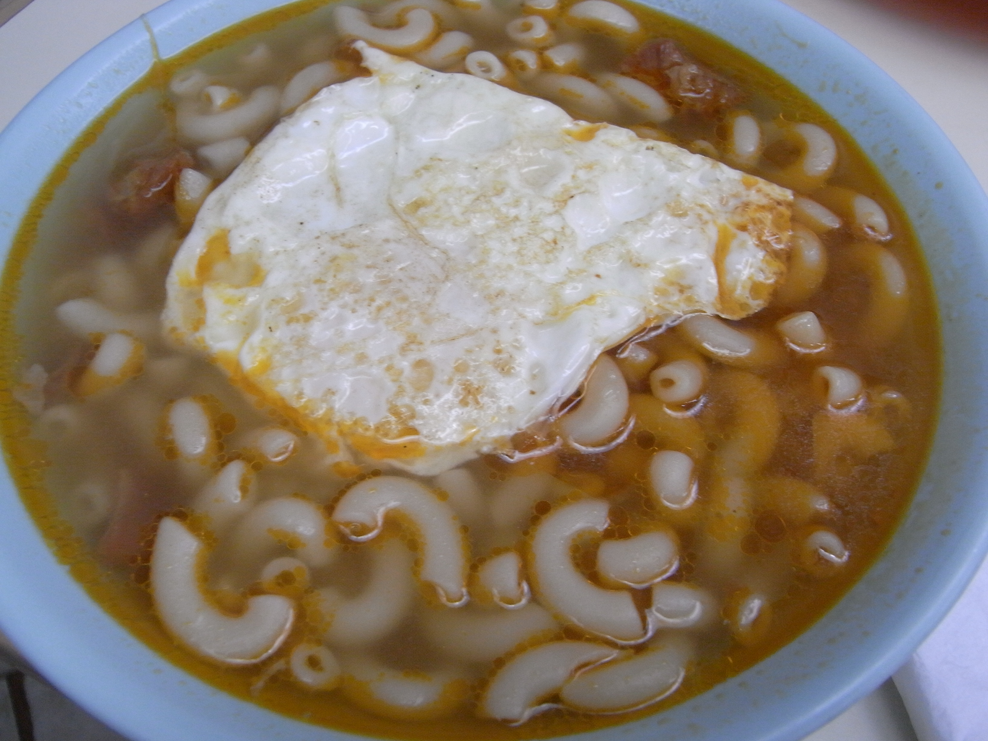 堅道 新藍塘麵包餐廳